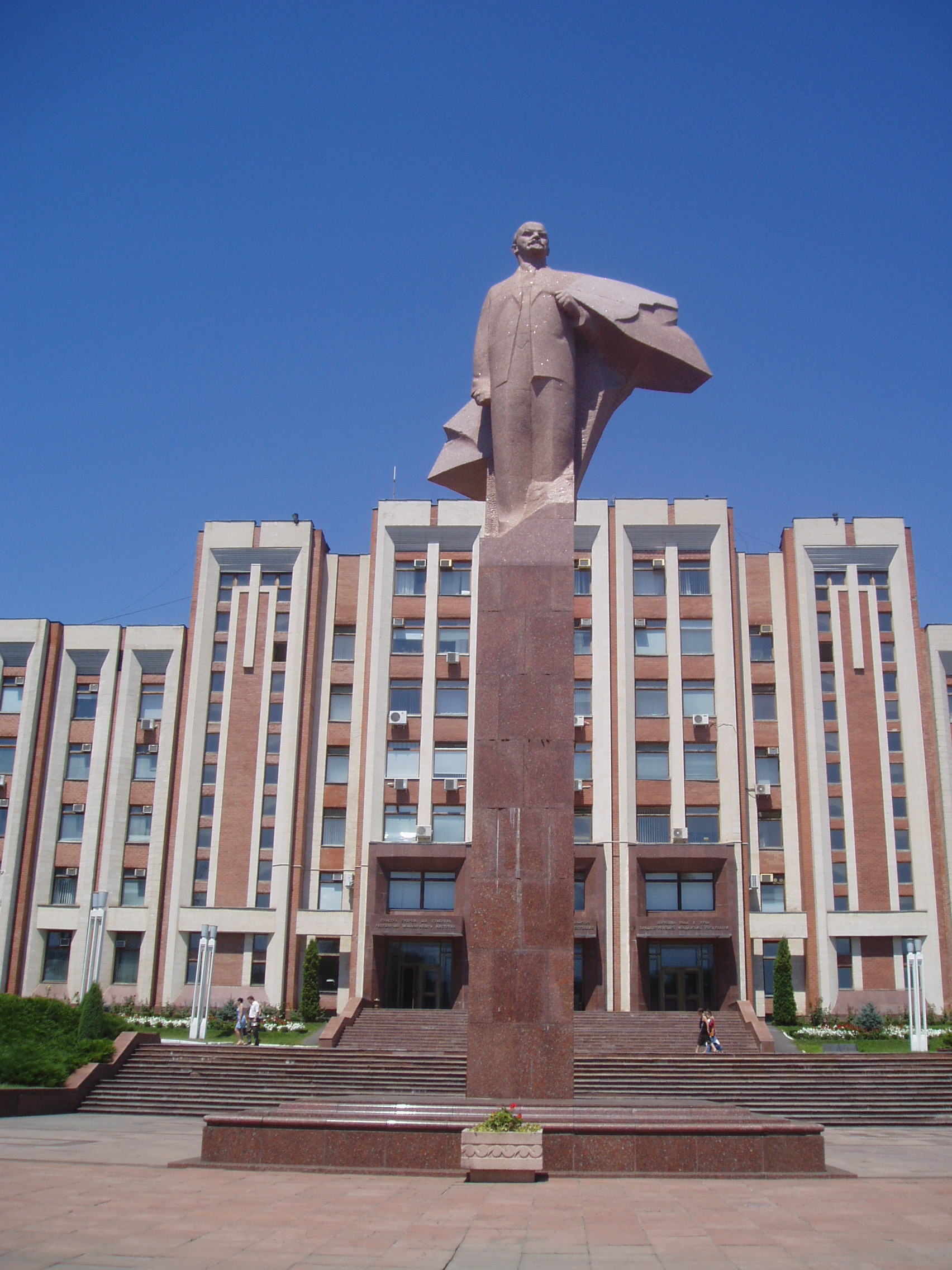 At least I think it is Lenin, but for all I know it could be Stalin too. In Tiraspol, Transnistria, Moldova.